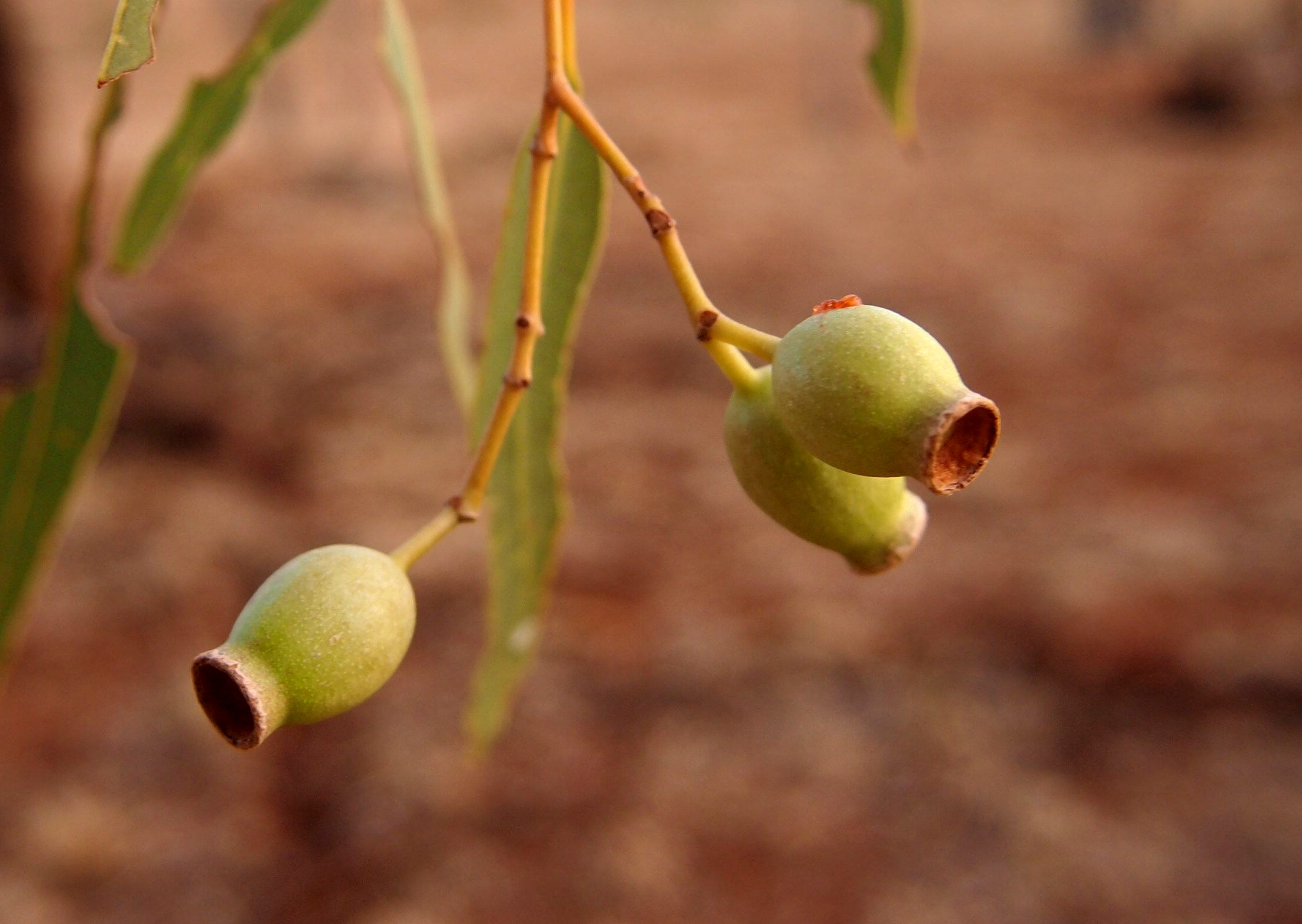 Corymbia opaca capsules